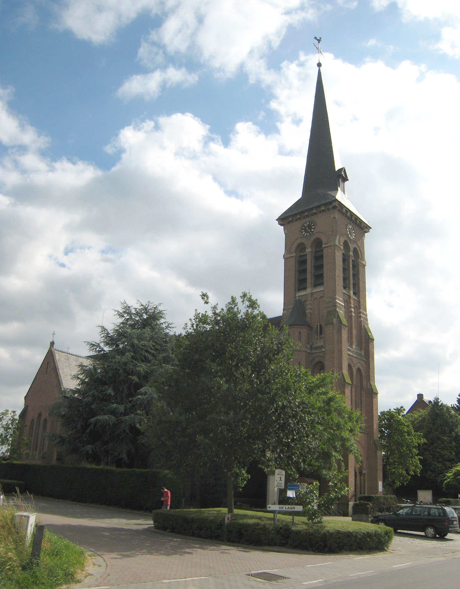 HH Engelbertus and Bernardus church in Laar (Zemst), Belgium